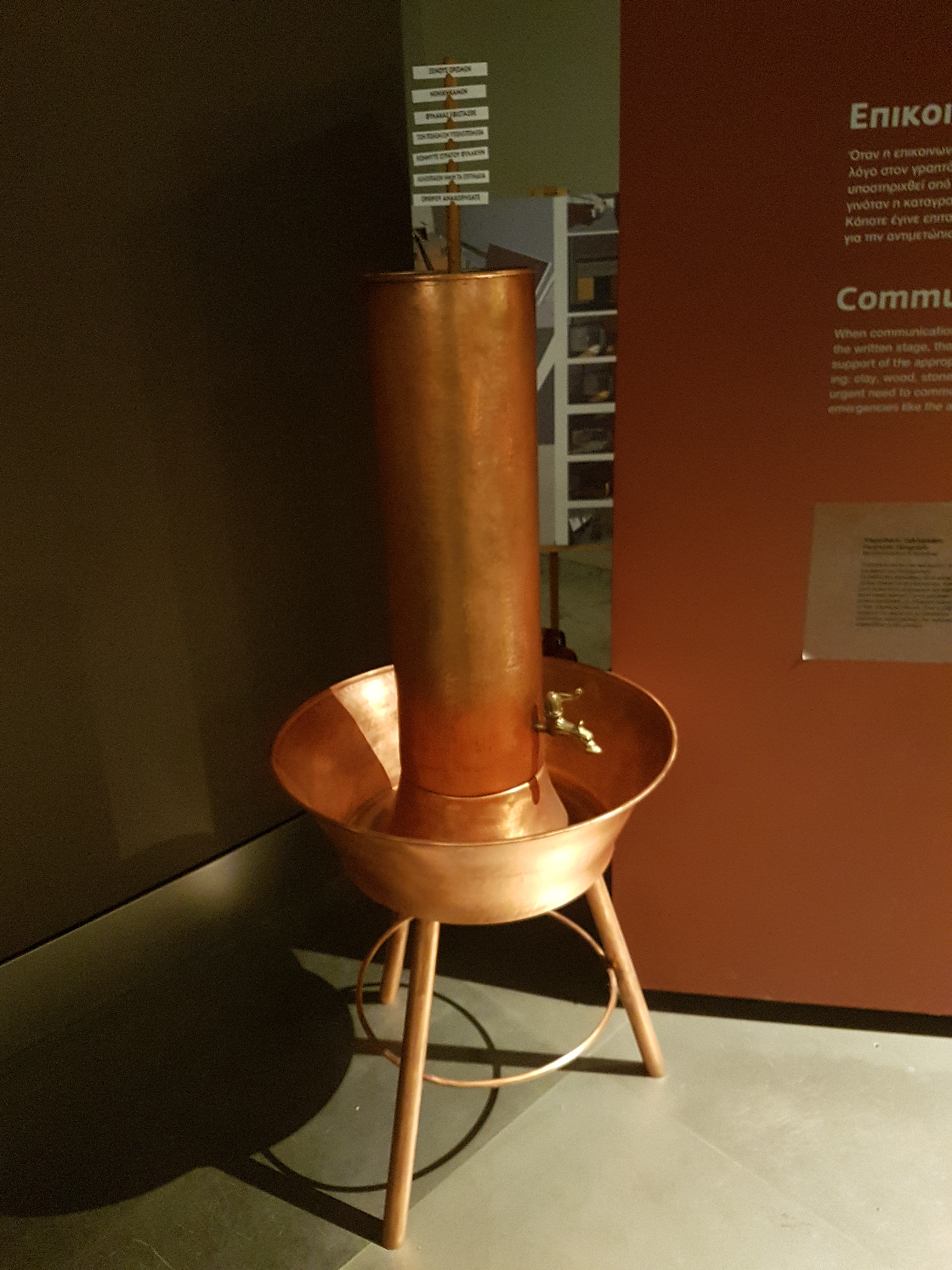 Hydraulic telegraph, 4th century BC (reconstruction based on descriptions by Aeneas Tacticus and Polybius). Thessaloniki Technology Museum